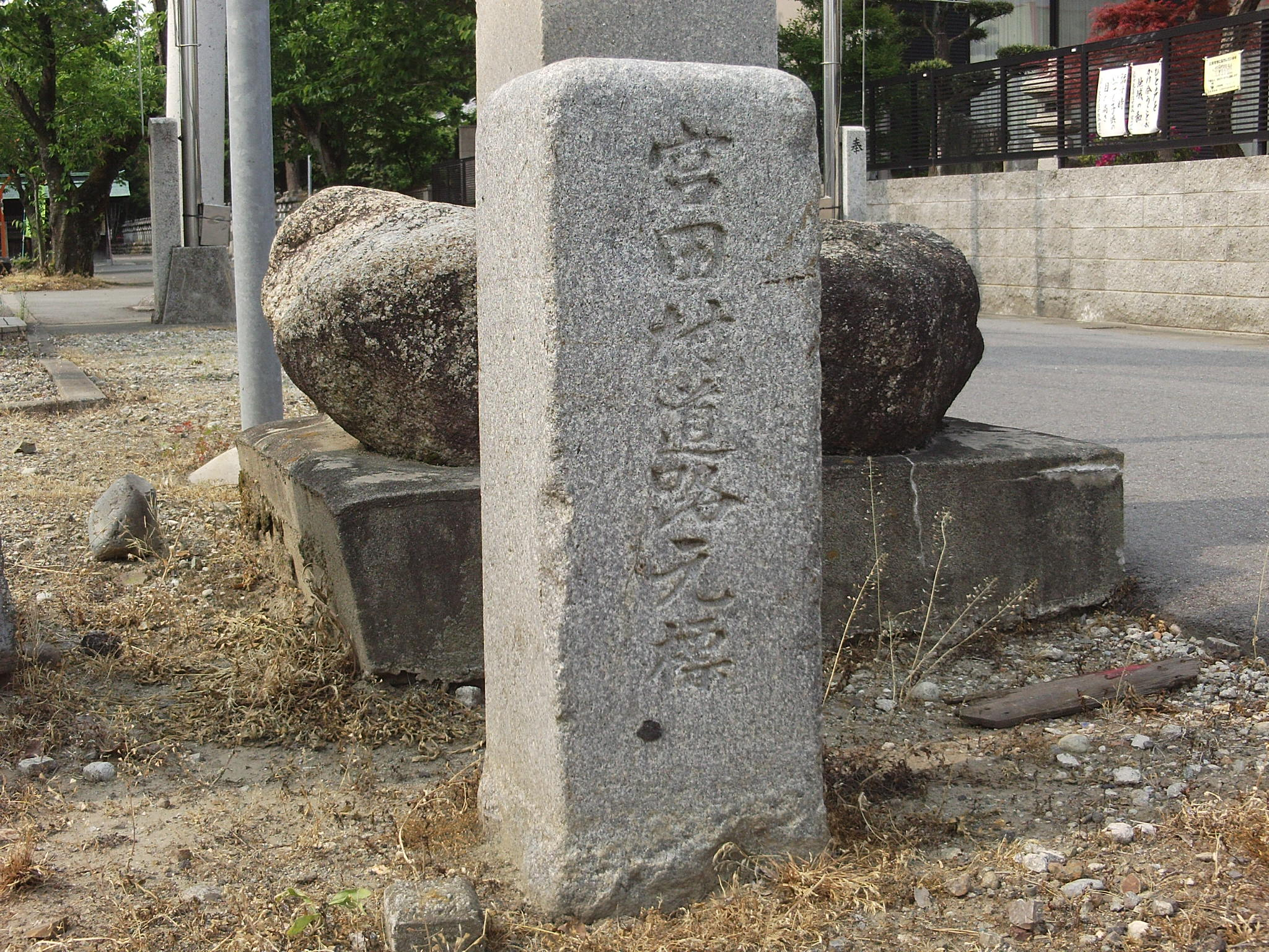 Kilometre zero of Miyata village. (Miyata village, Haguri-gun, Aichi.)